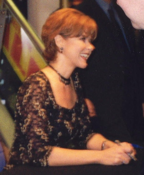 Linda Blair (Star of The Exorcist).